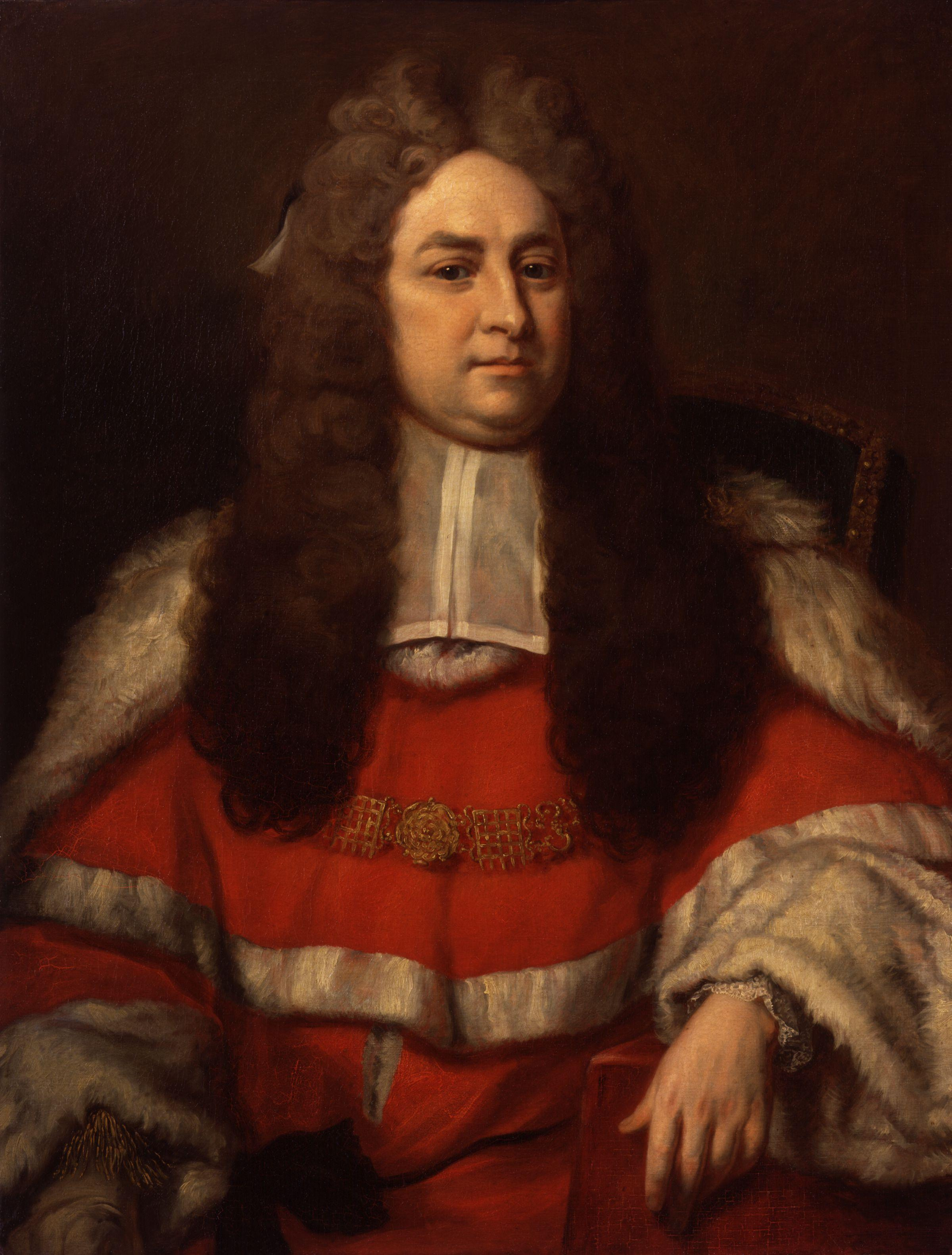 Sir John Pratt, by Michael Dahl (died 1743), given to the National Portrait Gallery, London in 1877. All images in this batch have been confirmed as author died before 1939 according to the official death date listed by the NPG.